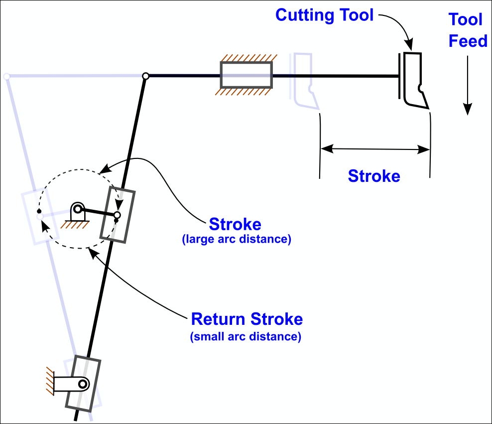 Shaper linkage (machine tool). Source:me, see Image:Shaper.svg, renders differently